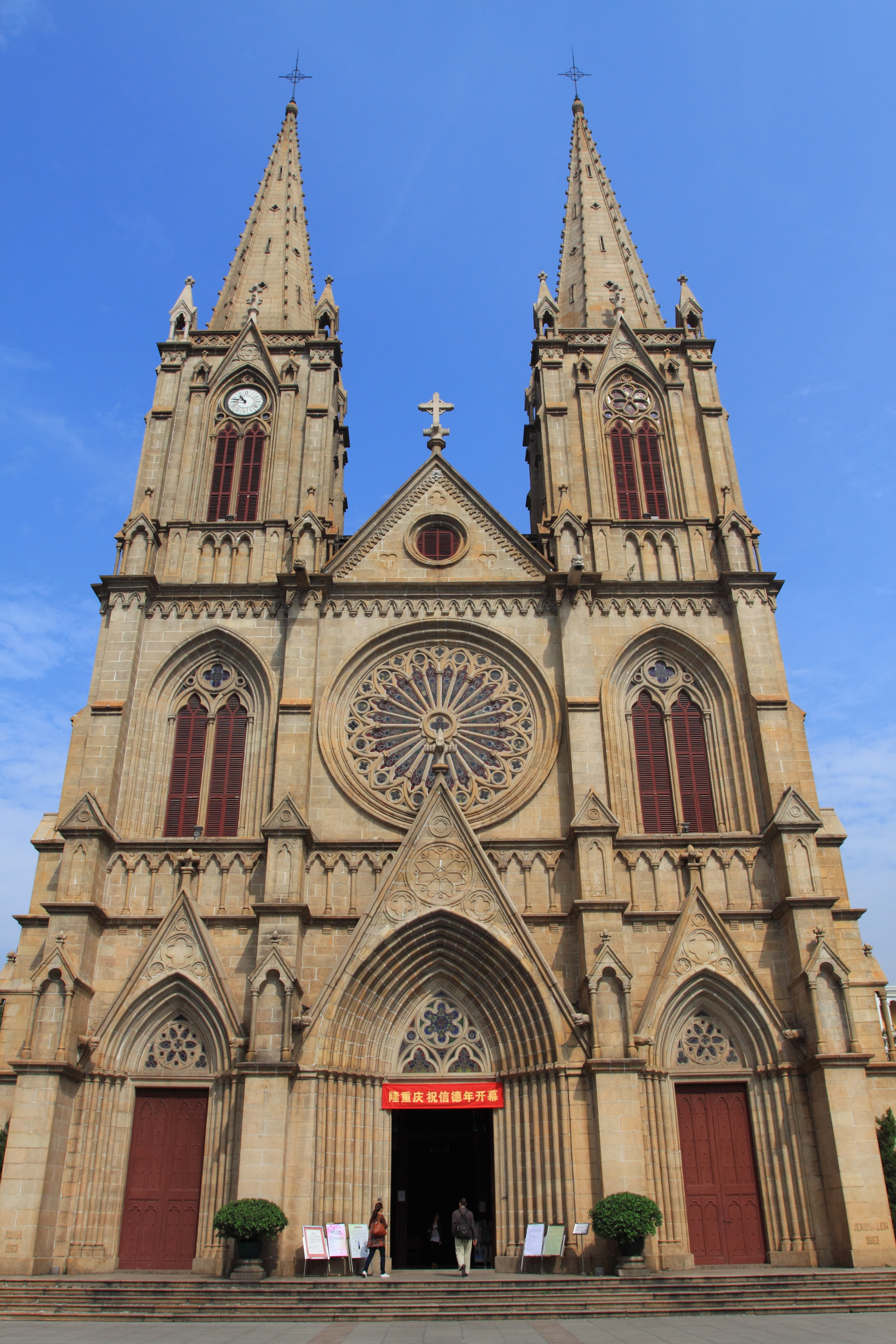 Sacred Heart Cathedral of Guangzhou，in Guangzhou, Guangdong, China.